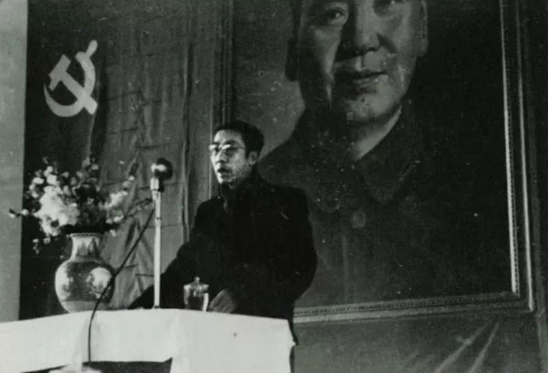 Peng Kang, the former President of Jiao Tong University, made a report on the 1st CPC Party members Congress of JTU in 1955. 中文（中国大陆）: 时任交通大学校长彭康于1955年交通大学首届党员大会上作报告